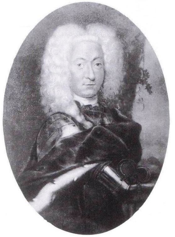 Portrait of Victor I, Prince of Anhalt-Bernburg-Schaumburg-Hoym (1693-1772)